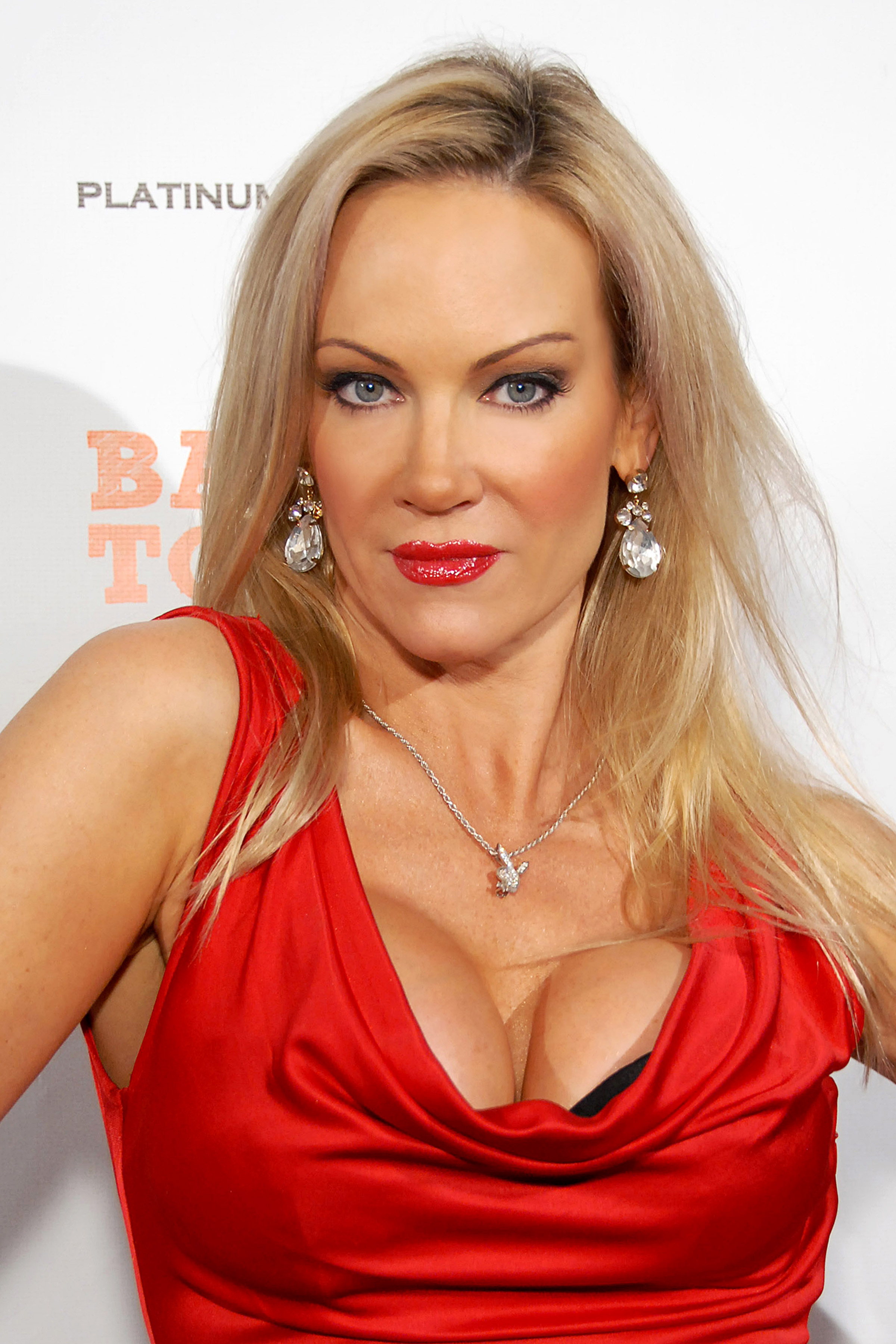 Barbara Moore, Beverly Hills, California, on December 1, 2012 - Photo by Glenn Francis of